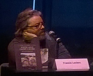 Francis Leclerc photographed in Montréal , Québec, Canada at the salon du livre de Montréal 2017.